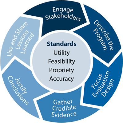 Framework for program evaluation in public health created by the Centers for Disease Control and Prevention.